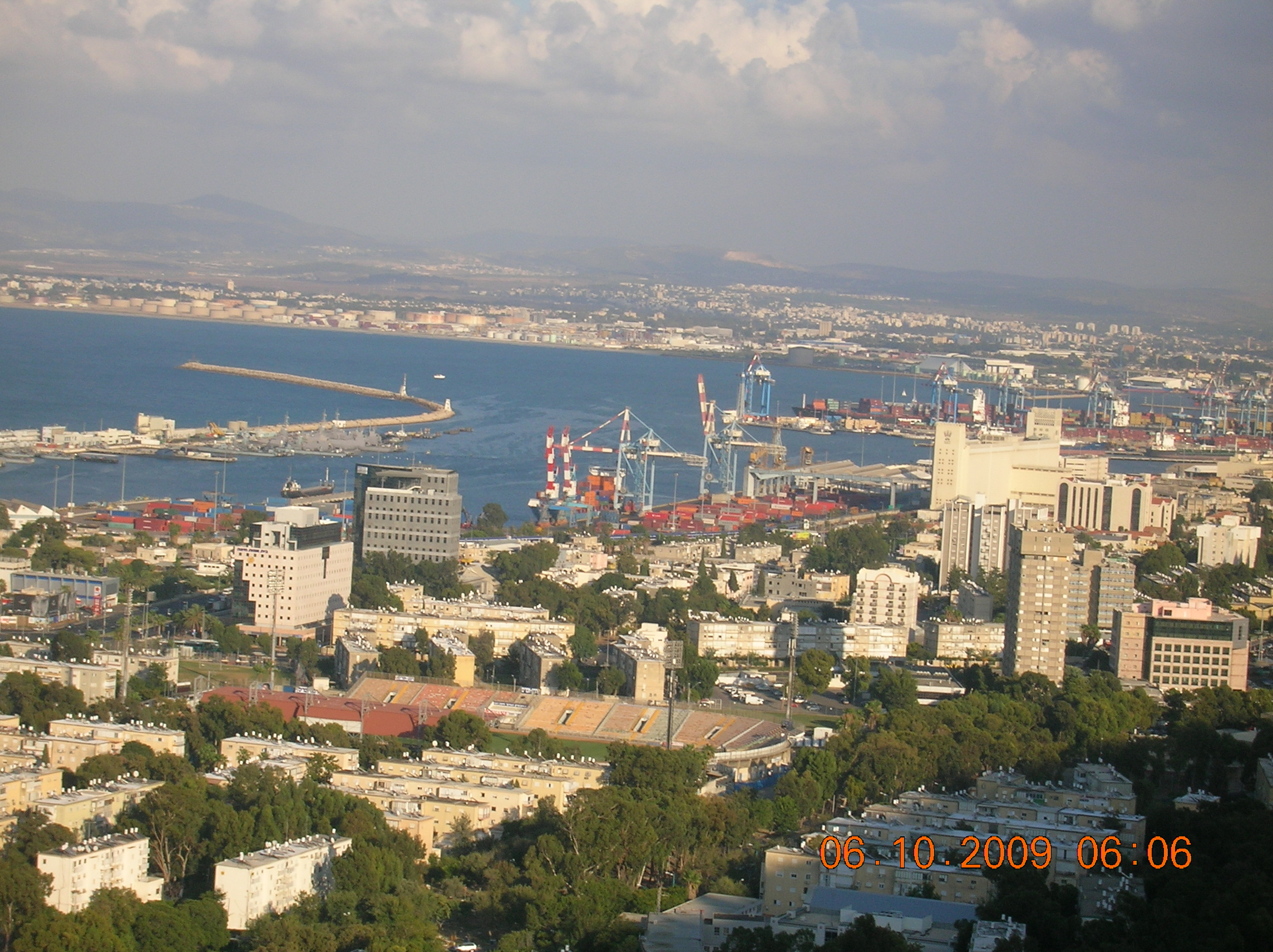 Haifa Port, Geography of Israel